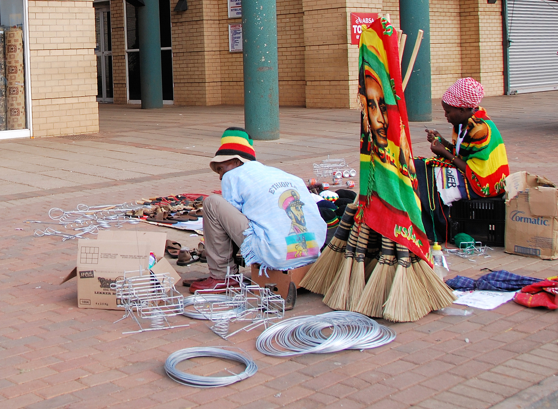 Street vendors in Zeerust, North West, South Africa